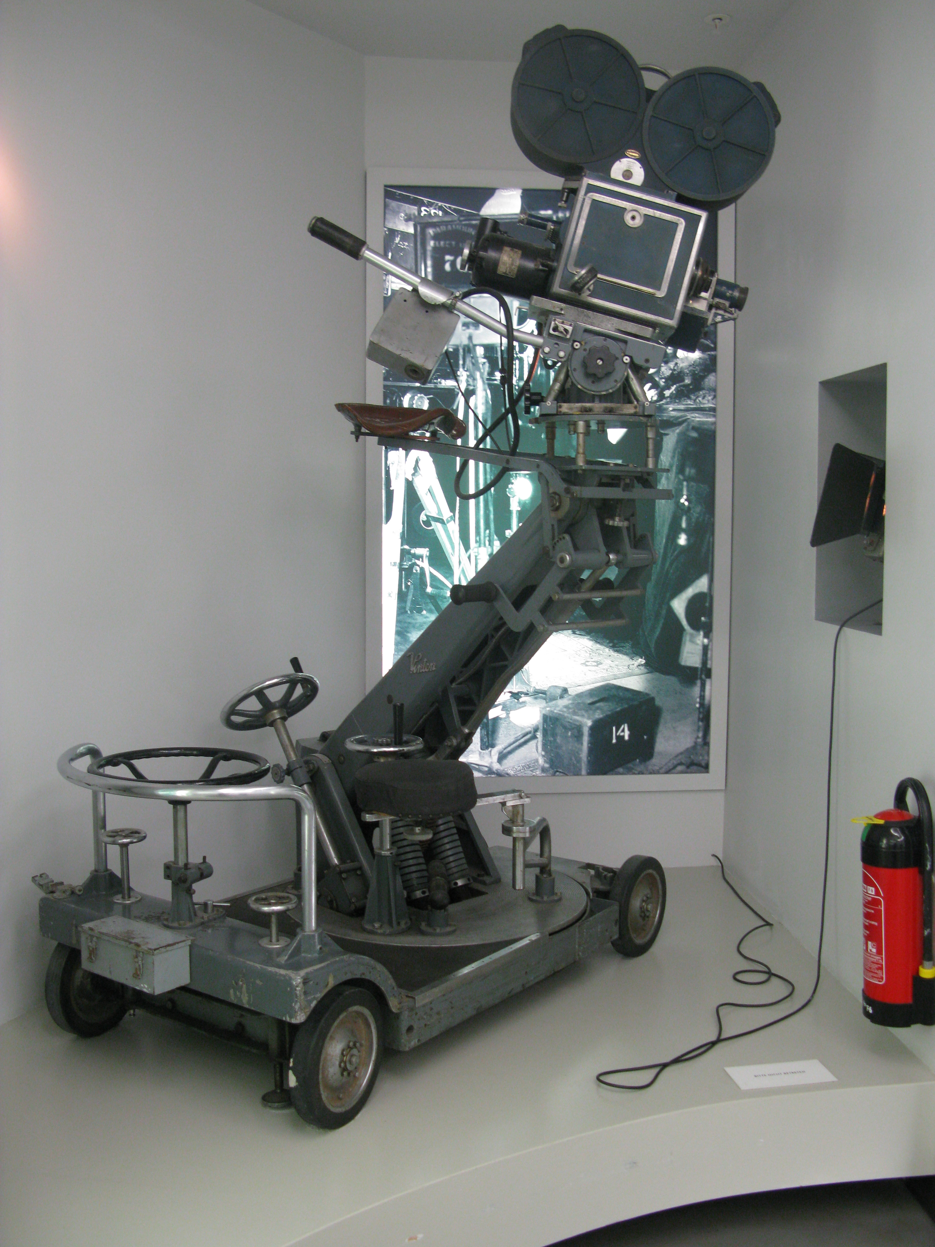 Filmcamera with camera dolly in the Filmmuseum Berlin.